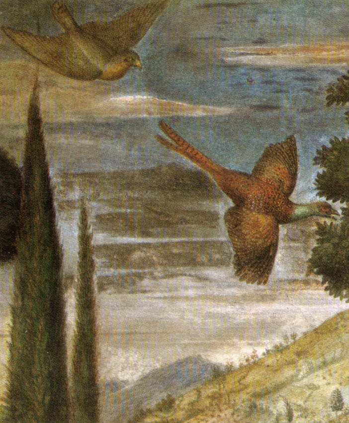 A hawk chasing a pheasant. Detail from the fresco by Benozzo Gozzoli, in the "Cappella dei Magi", at Palazzo Medici Riccardi in Florence, Italy.